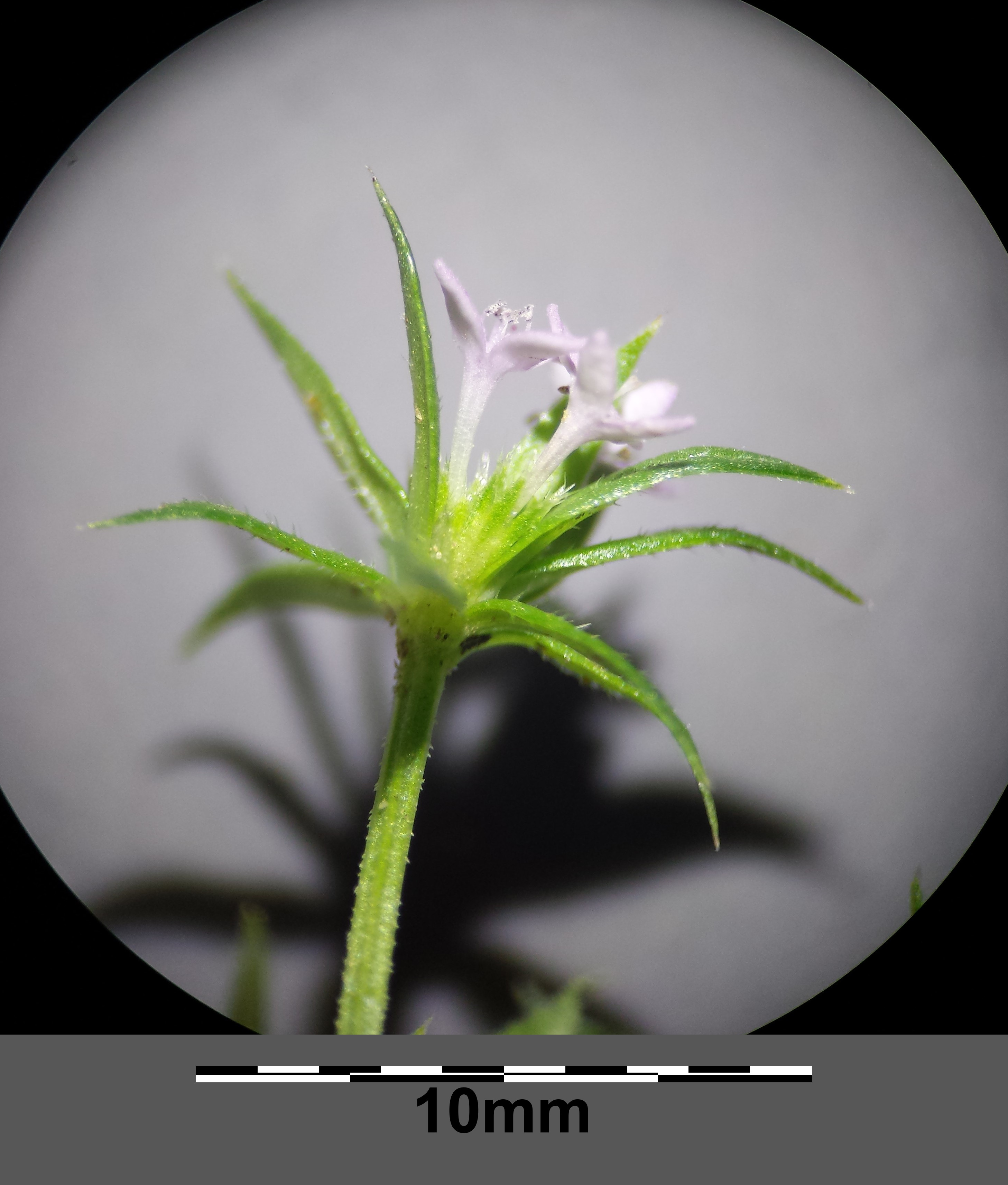 Inflorescence Taxonym: Sherardia arvensis ss Fischer et al. EfÖLS 2008 ISBN 978-3-85474-187-9 Location: nearby Riebeis, Rappottenstein, district Zwettl, Lower Austria - ca. 775 m a.s.l. Habitat: field